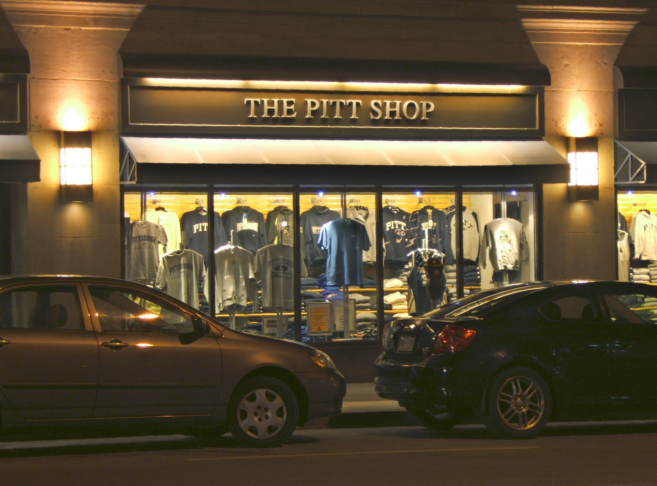 I got some cheap tees for the wife and kids here...$3 each!